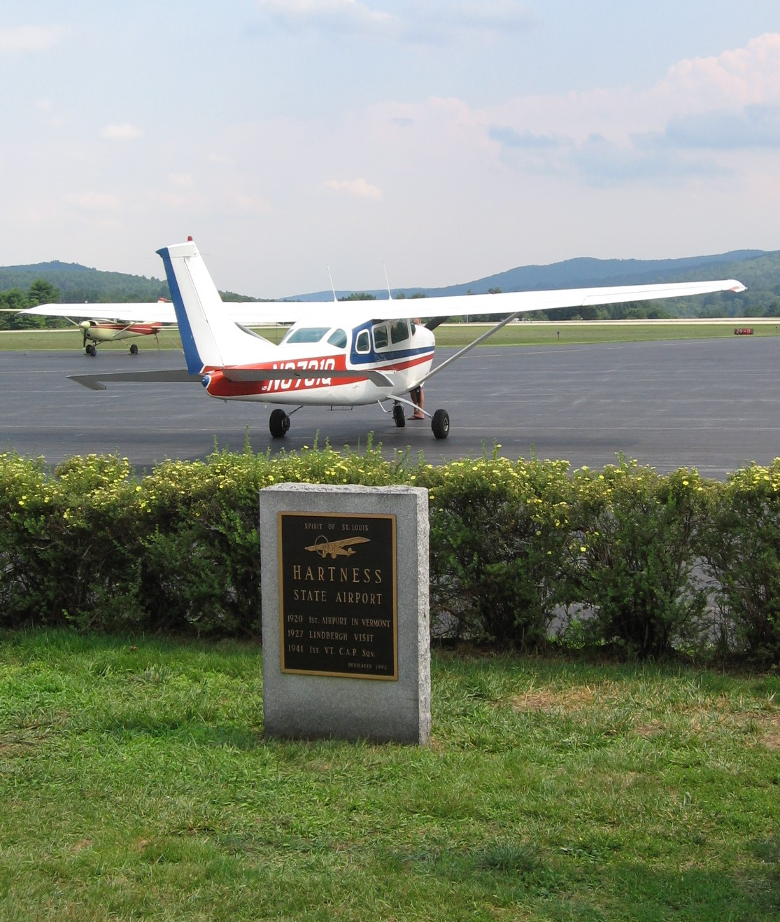 Hartness State Airport Tarmac